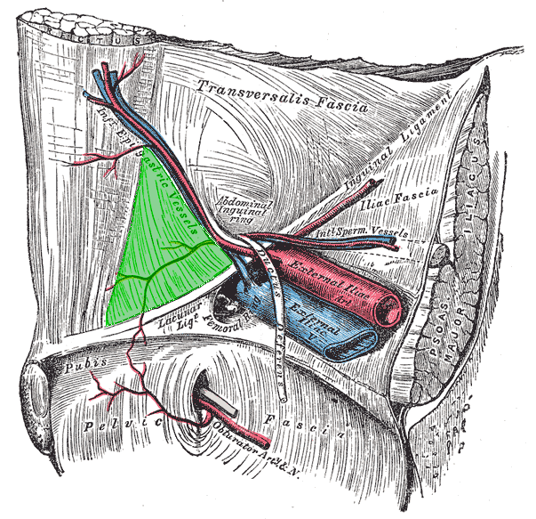 Internal (from posterior to anterior) view of right inguinal area of the male pelvis, with inguinal triangle labeled in green.